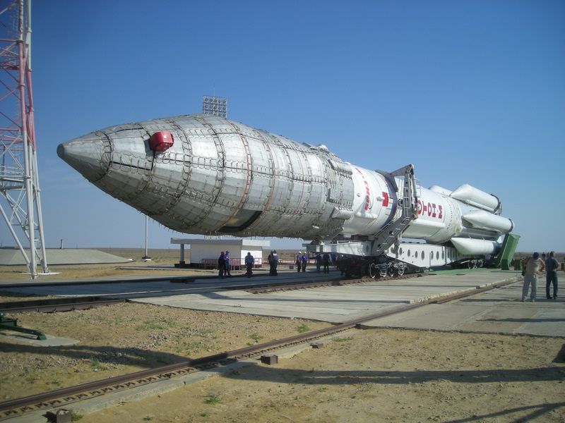 A newly "rolled out" Proton-M, carrying the Inmarsat-4F3 spacecraft, is readied for "verticalization" at Pad 39.